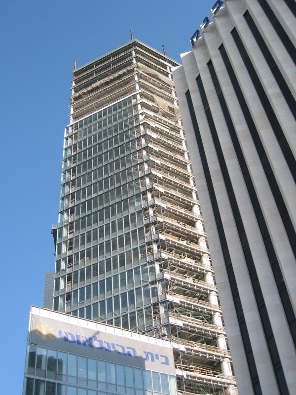 Rothschild Boulevard, Tel Aviv